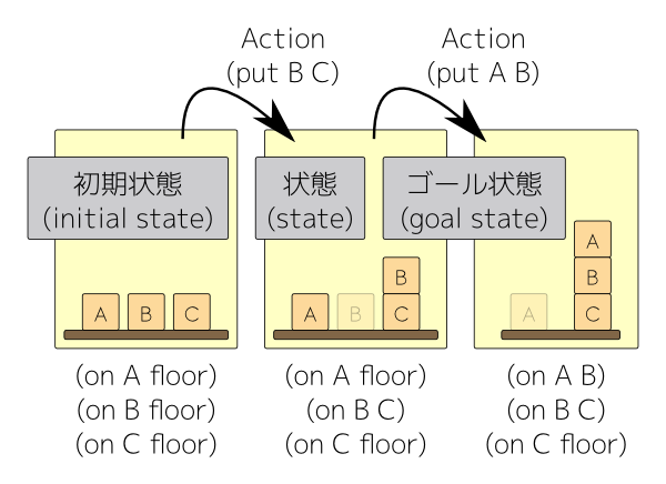 Automated Planning 1